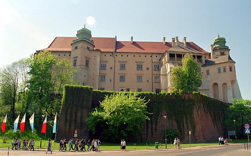 Royal Castle on Wawel Hill. View of Wawel Castle constructed during the Renaissance.